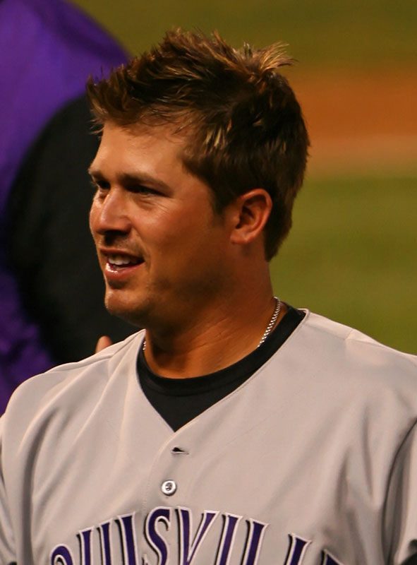 Andy Phillips at PNC Field in Scranton, PA.